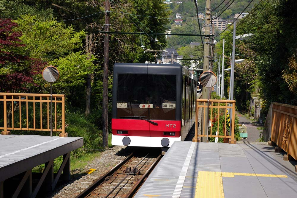 Hakone Cabele car.Taken by Los688 at Kouensimo station ,May 4 2006.